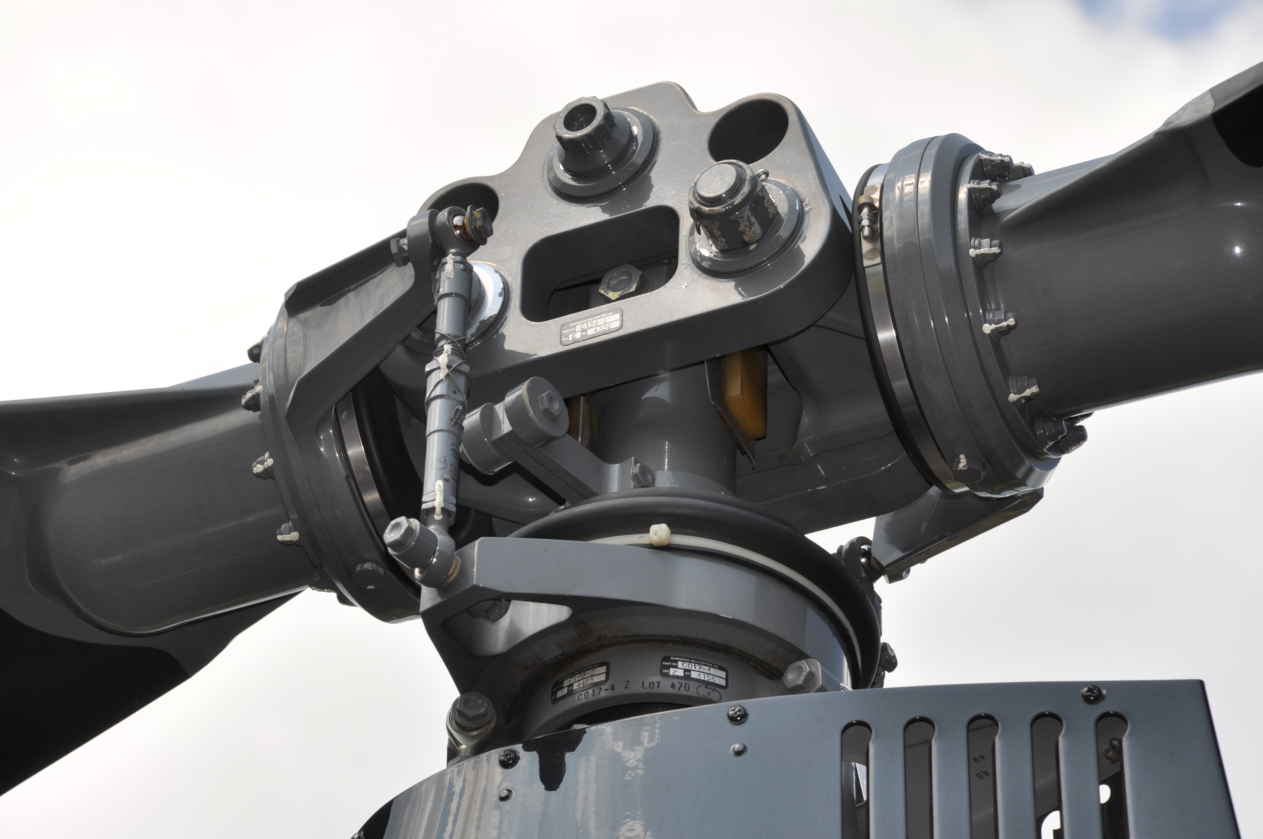 Rotor hub of the Robinson R44 helicopter. Photographed by myself.